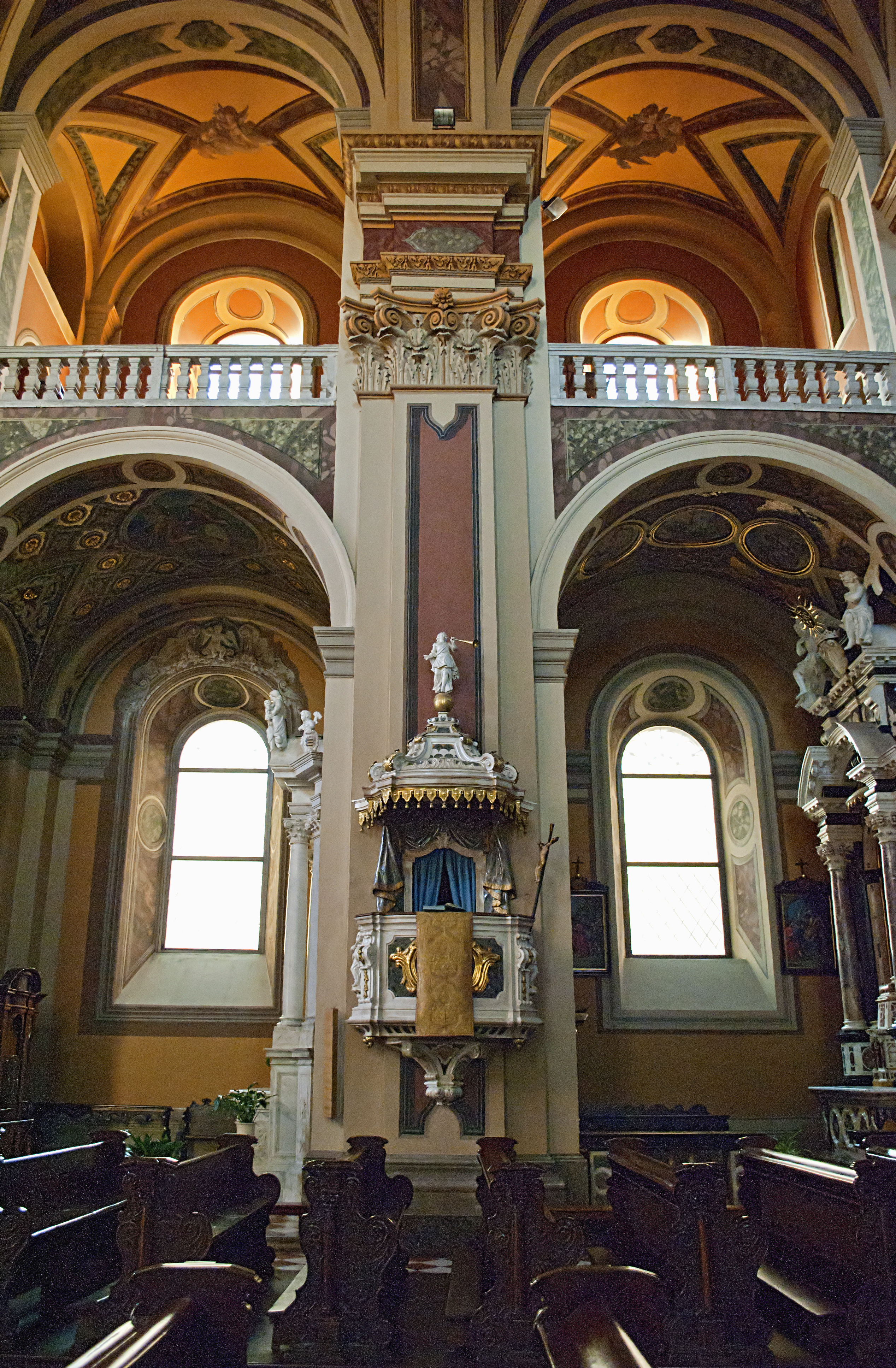 Church of Sant Ignatius in Gorizia, Italy; view of the interior.